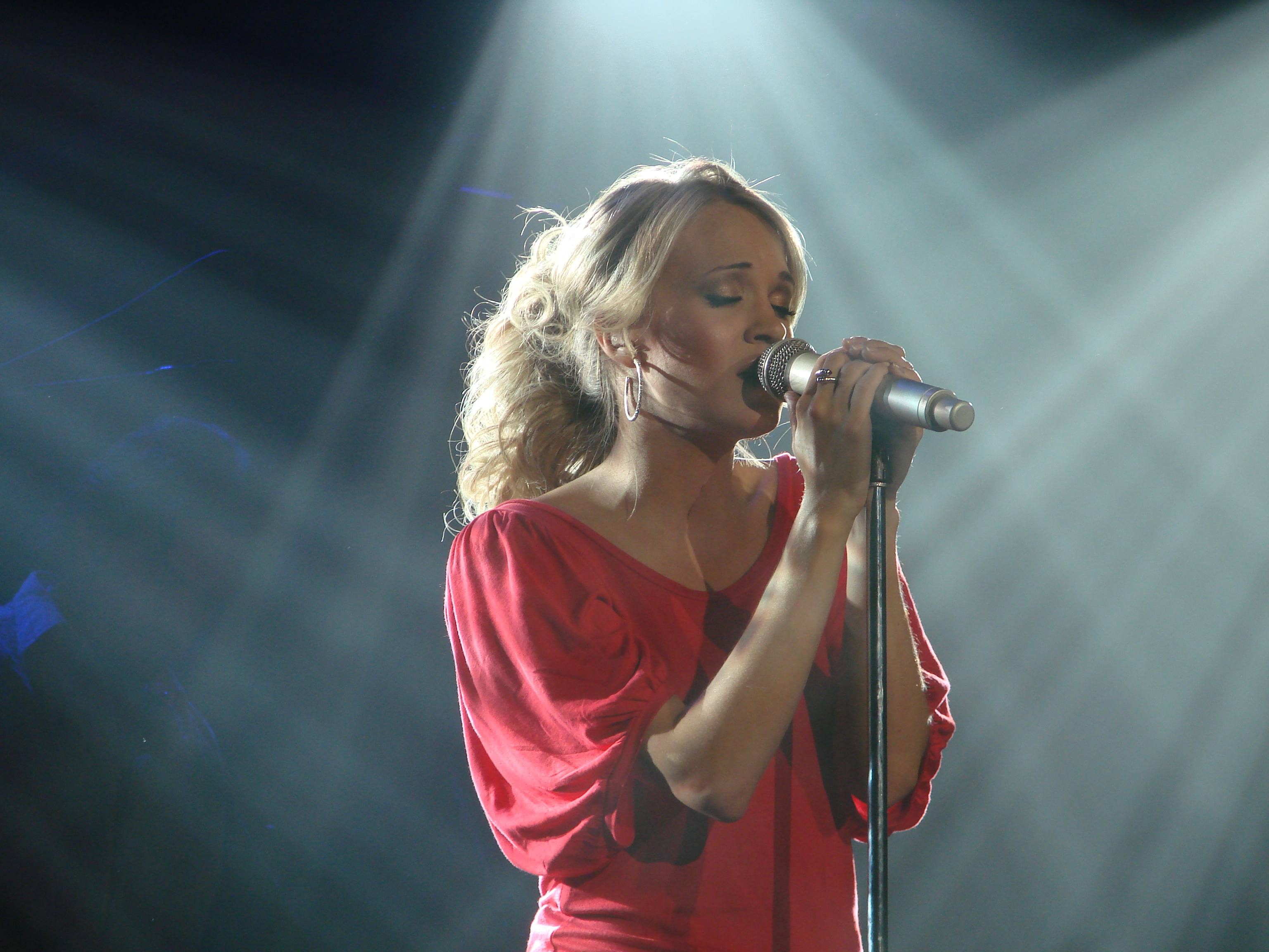 Carrie Underwood performing at the World Arena in Colorado Springs, ColoradoCarrie Underwood